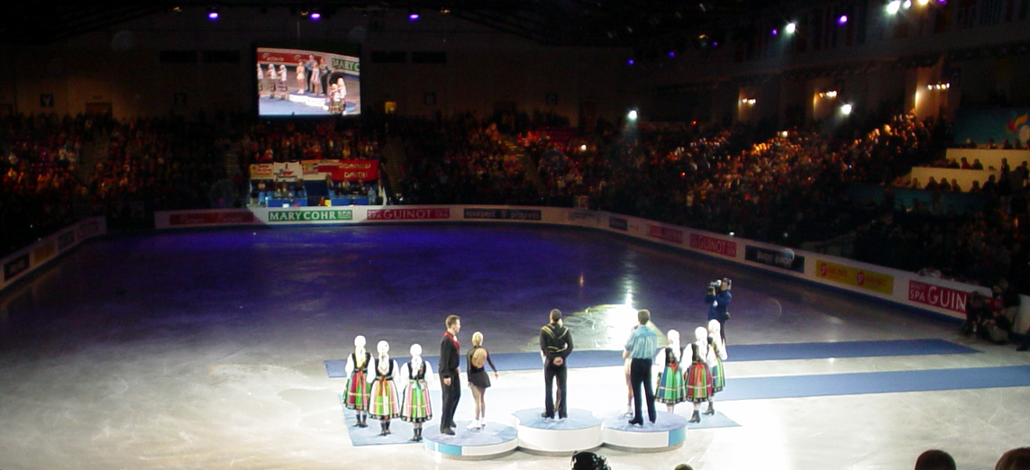 The 2007 European Figure Skating Championships. Warsaw Torwar Hall. The Best Pairs.